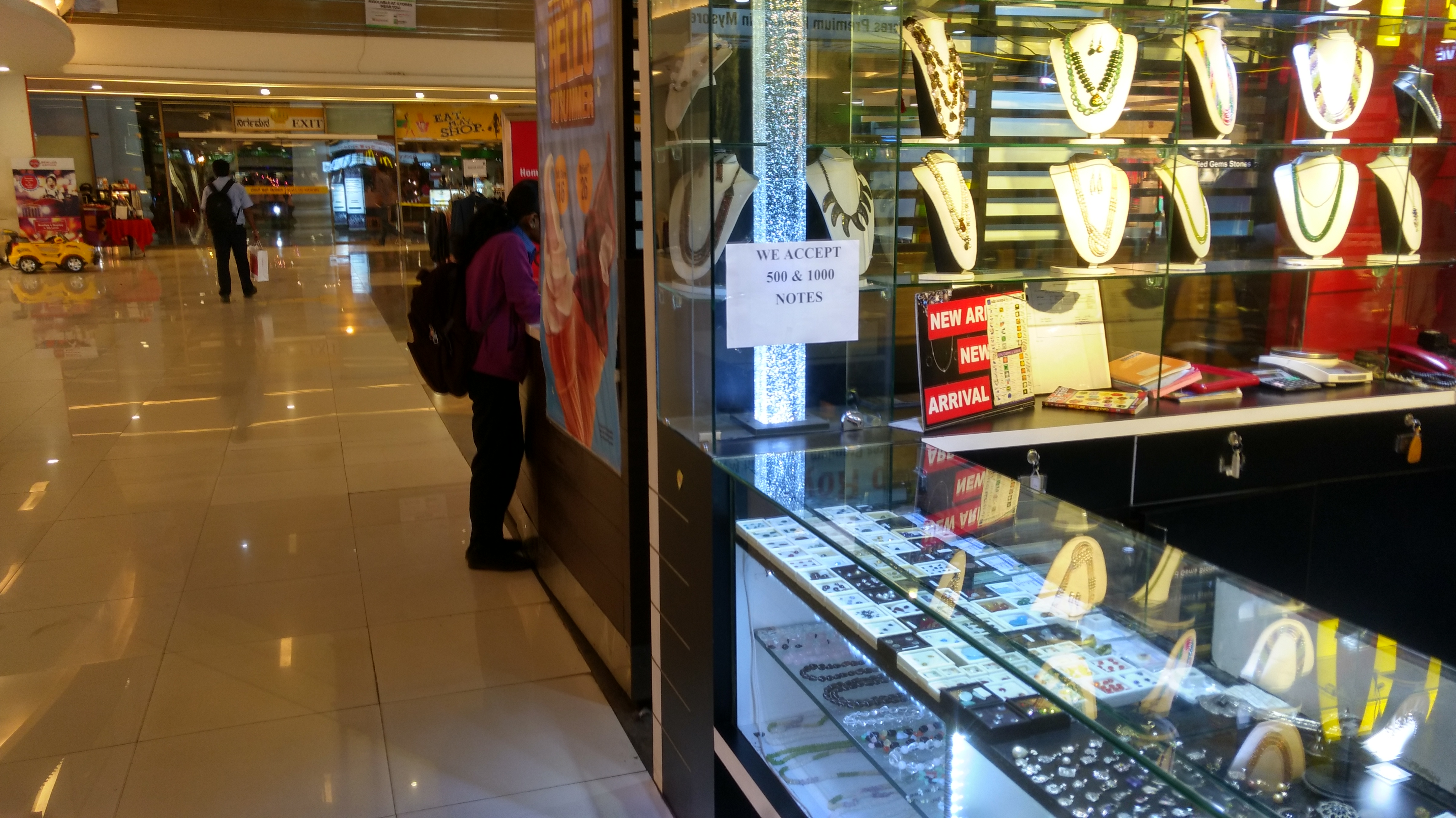 A shop accepting 500 and 1000 rupee notes